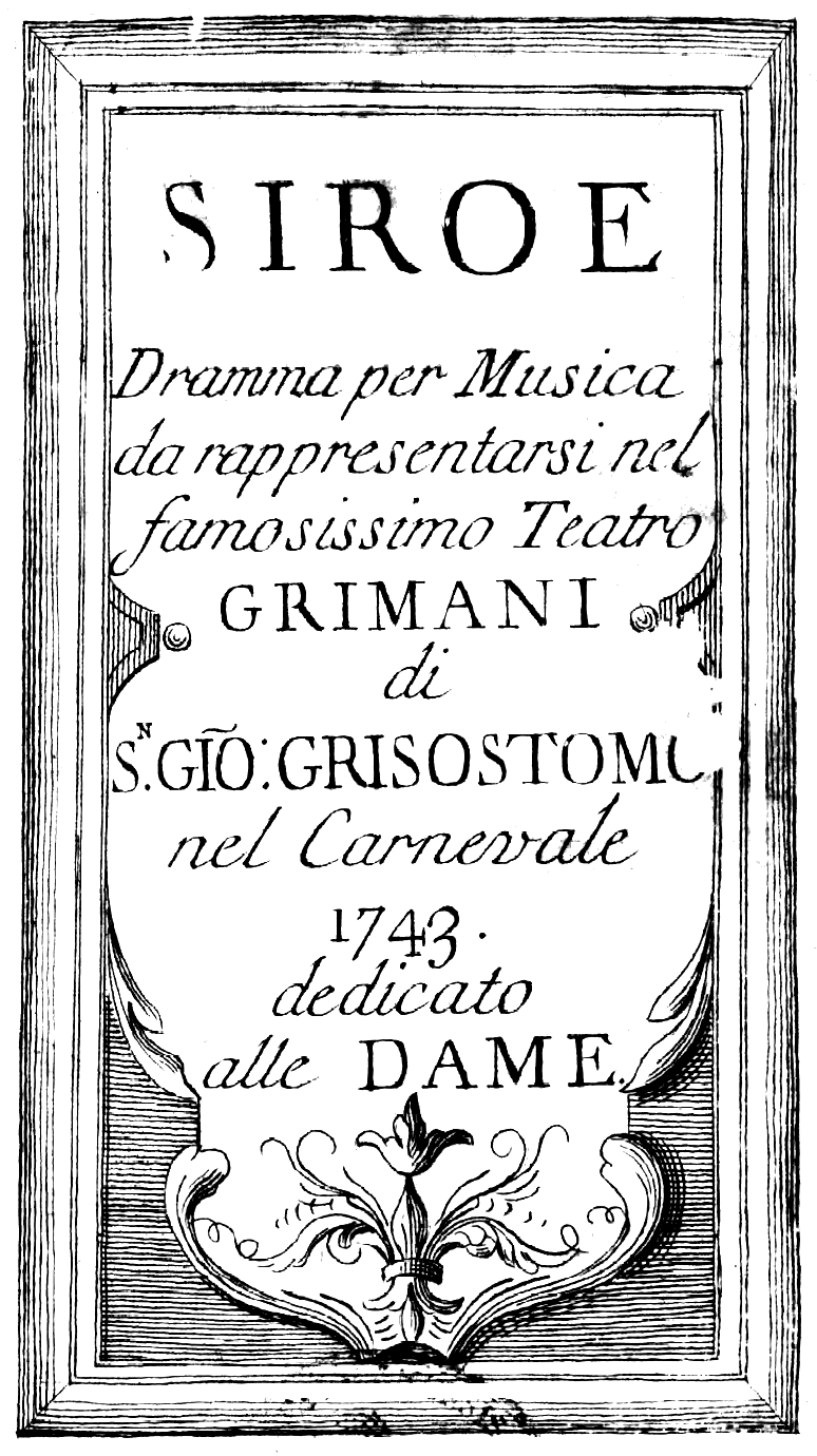 Gennaro Manna - Siroe - titlepage of the libretto - Venice 1743